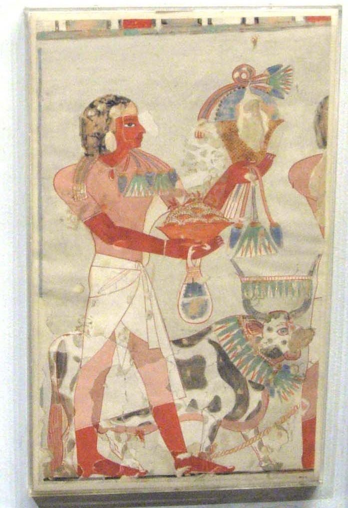 Facsimile, Tjener (TT 101), offerings, bull, bees and honeycomb